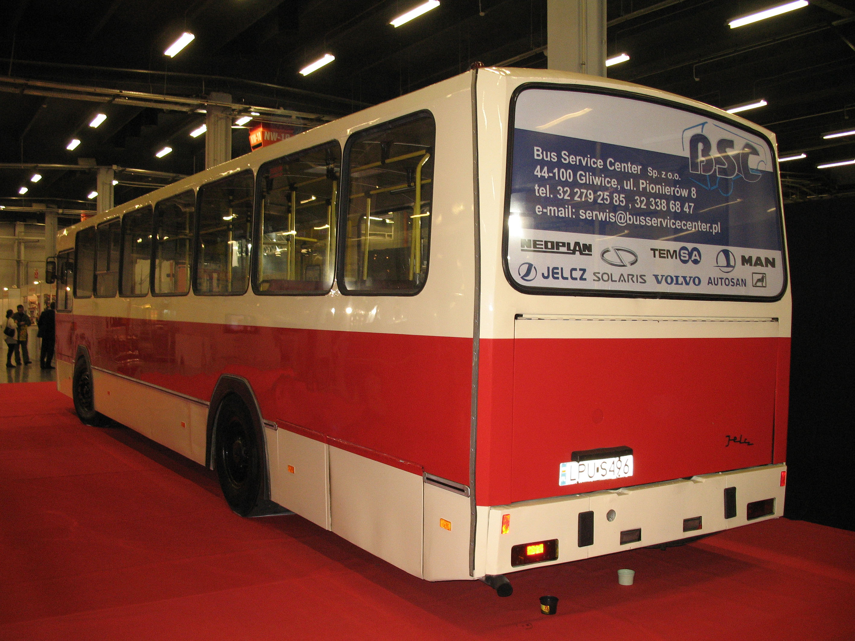 Jelcz PR110M bus (#119, reg. LPU S496) in Kielce, Poland. Built 1991, KMKM from Warsaw operator. Transexpo 2011.